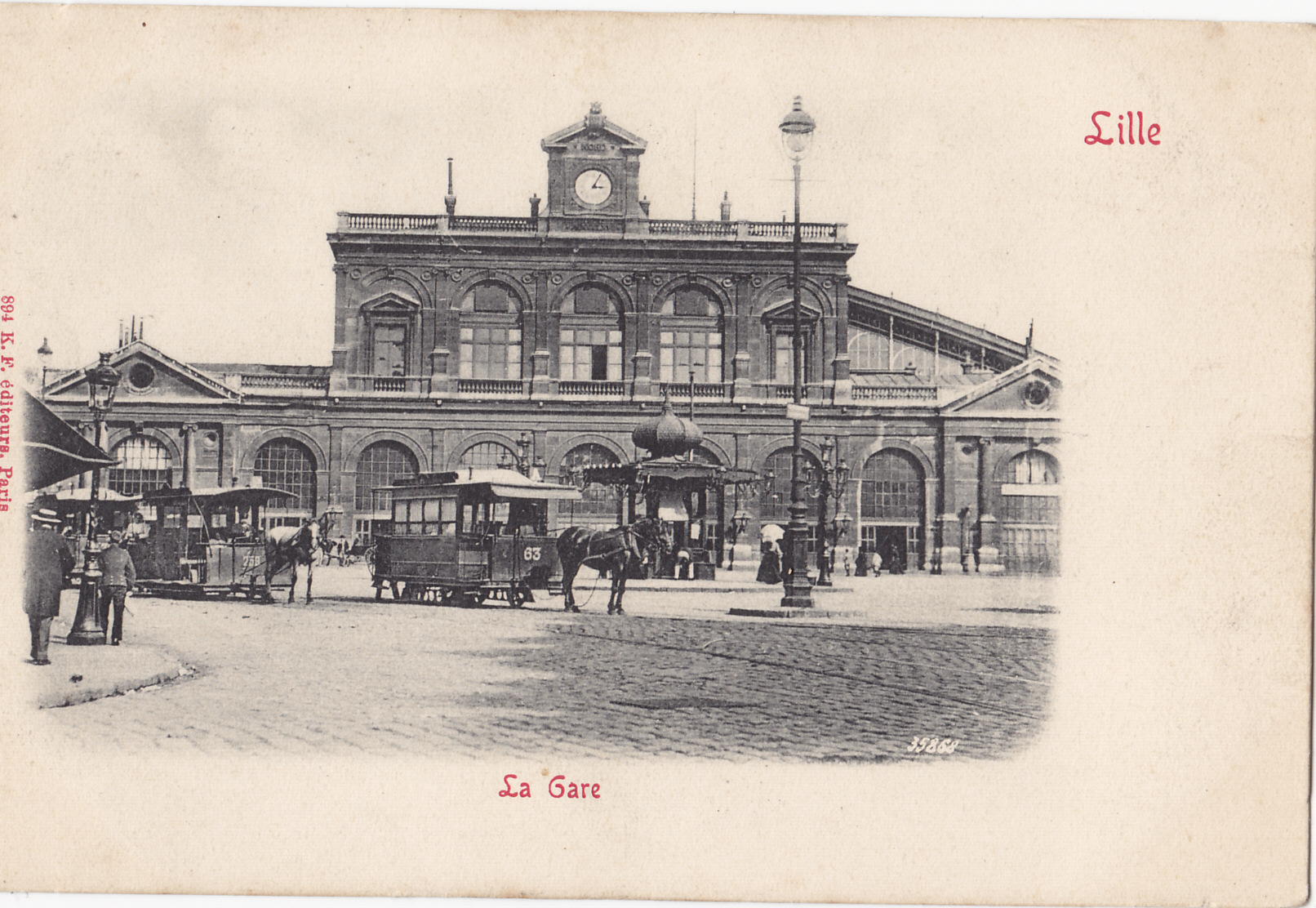 Lille (France - Nord department) – Old postcard – The railway station.